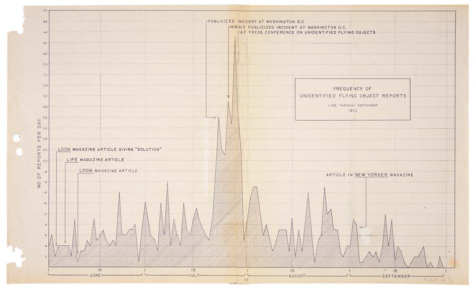 Scope and content: This chart, Appendix I to Project Blue Book Status Report No. 8, shows the frequency of unidentified flying object (UFO) reports during the months of June, July, August, and September 1952.